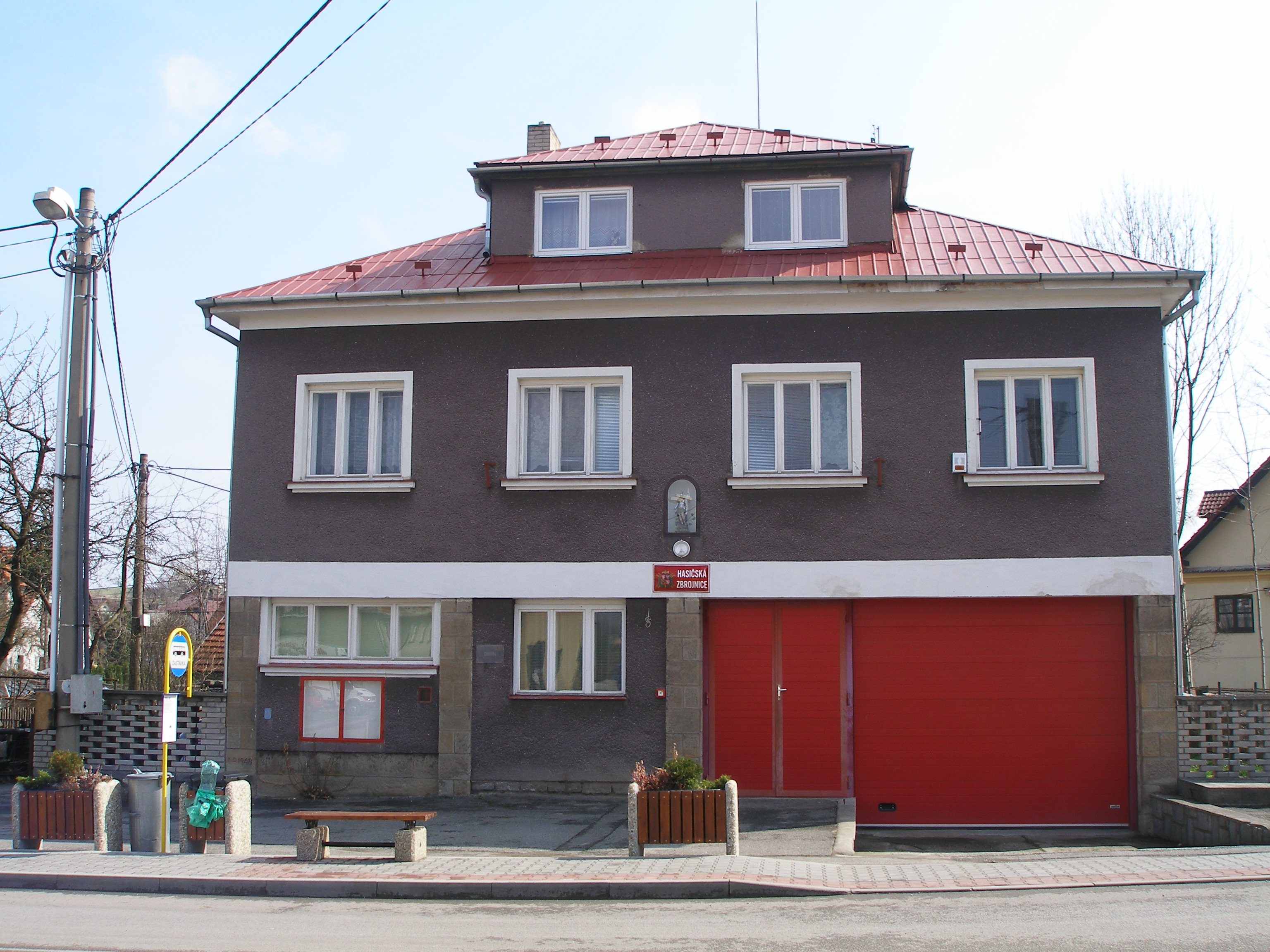 Fire station and library in Mořkov.